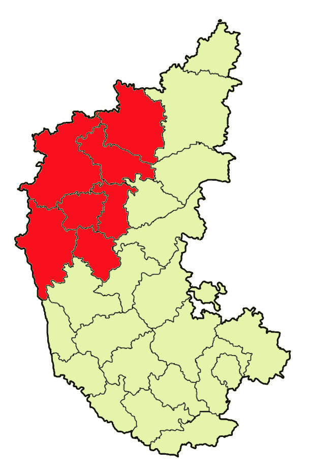 Locator map of Belagavi division, Karnataka, India